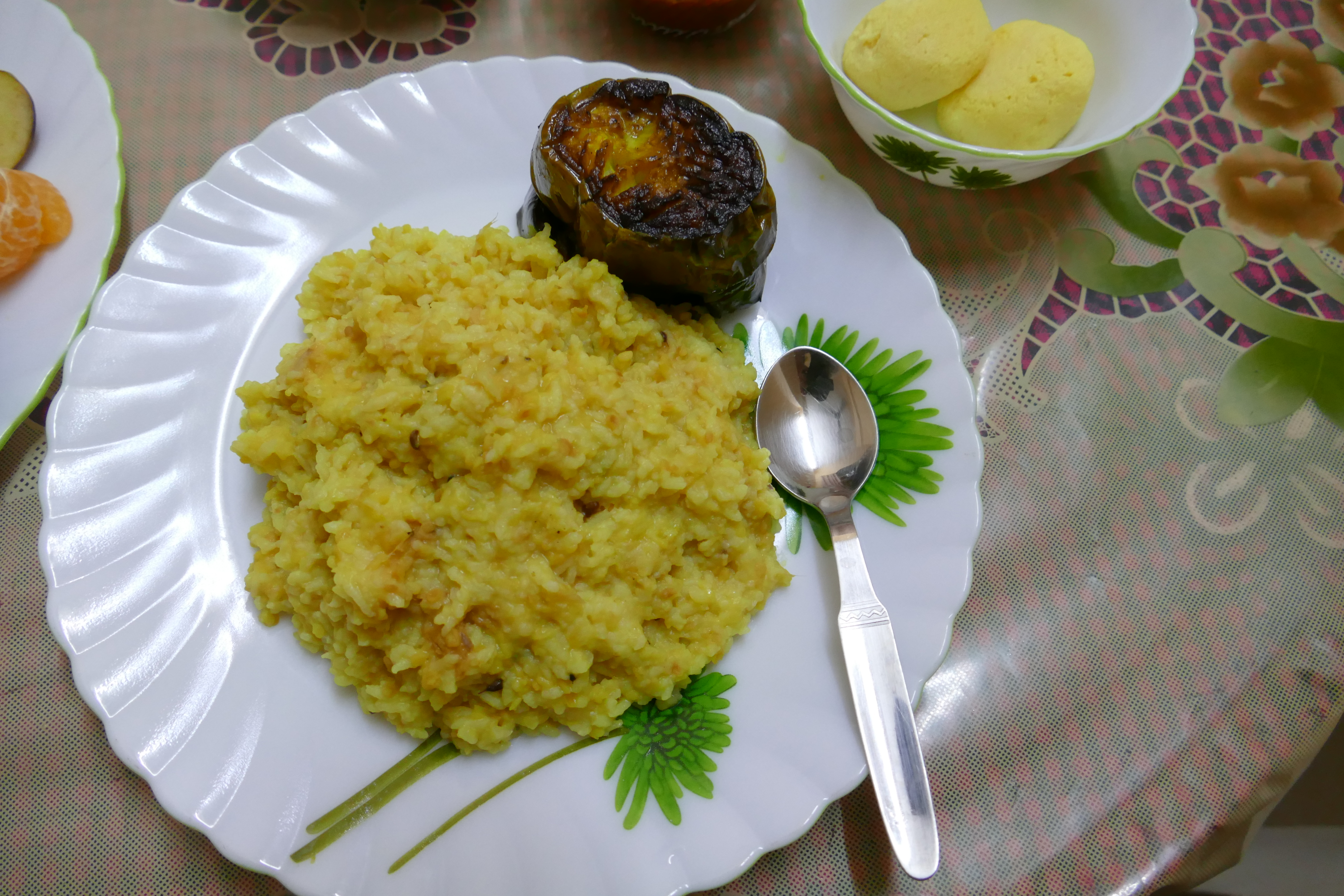 Bhoger khichuri (a mix of rice and lentils) with fried Aubergine